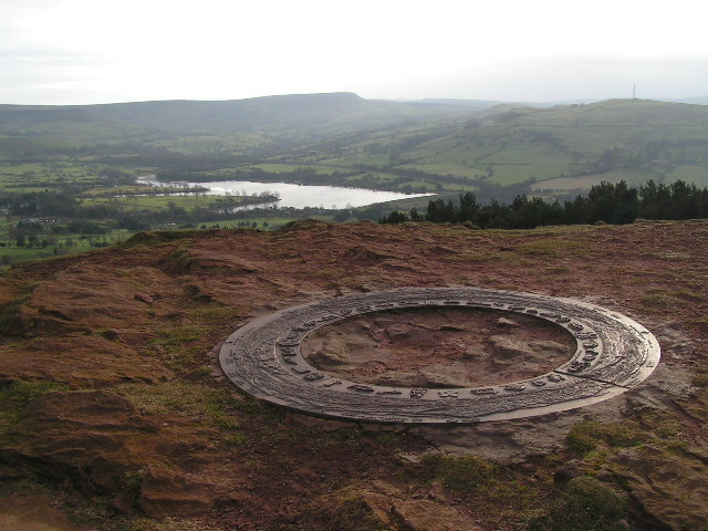 Eccles Pike topograph. Looking south to Combs Reservoir (SK0379), Combs Moss (left) and Ladder Hill (right, SK0278)